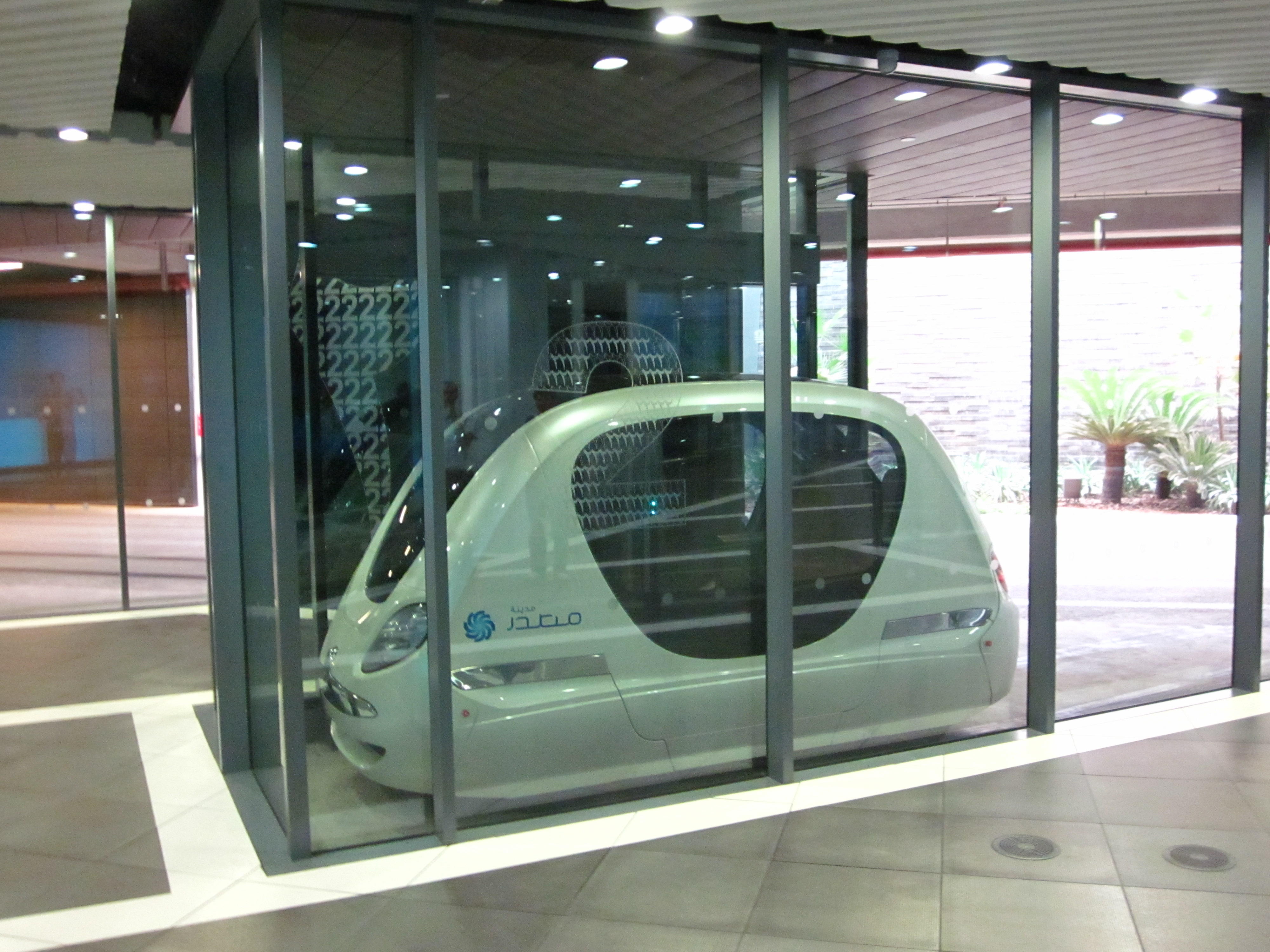 Masdar personal rapid transit podcar, Masdar City, Abu Dhabi, United Arab Emirates